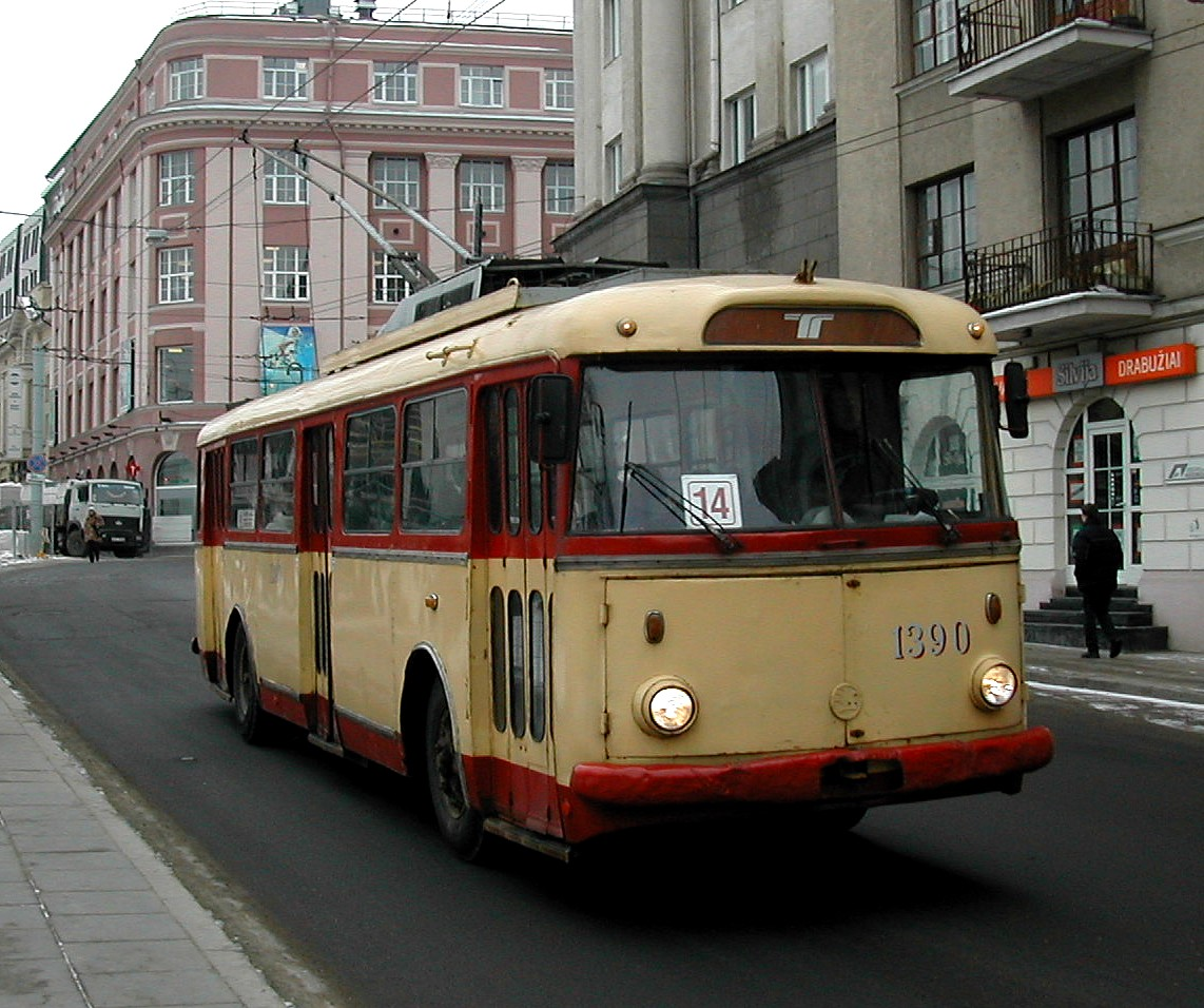 Skoda trolleybus on Gediminas Avenue in Vilnius, Lithuania.